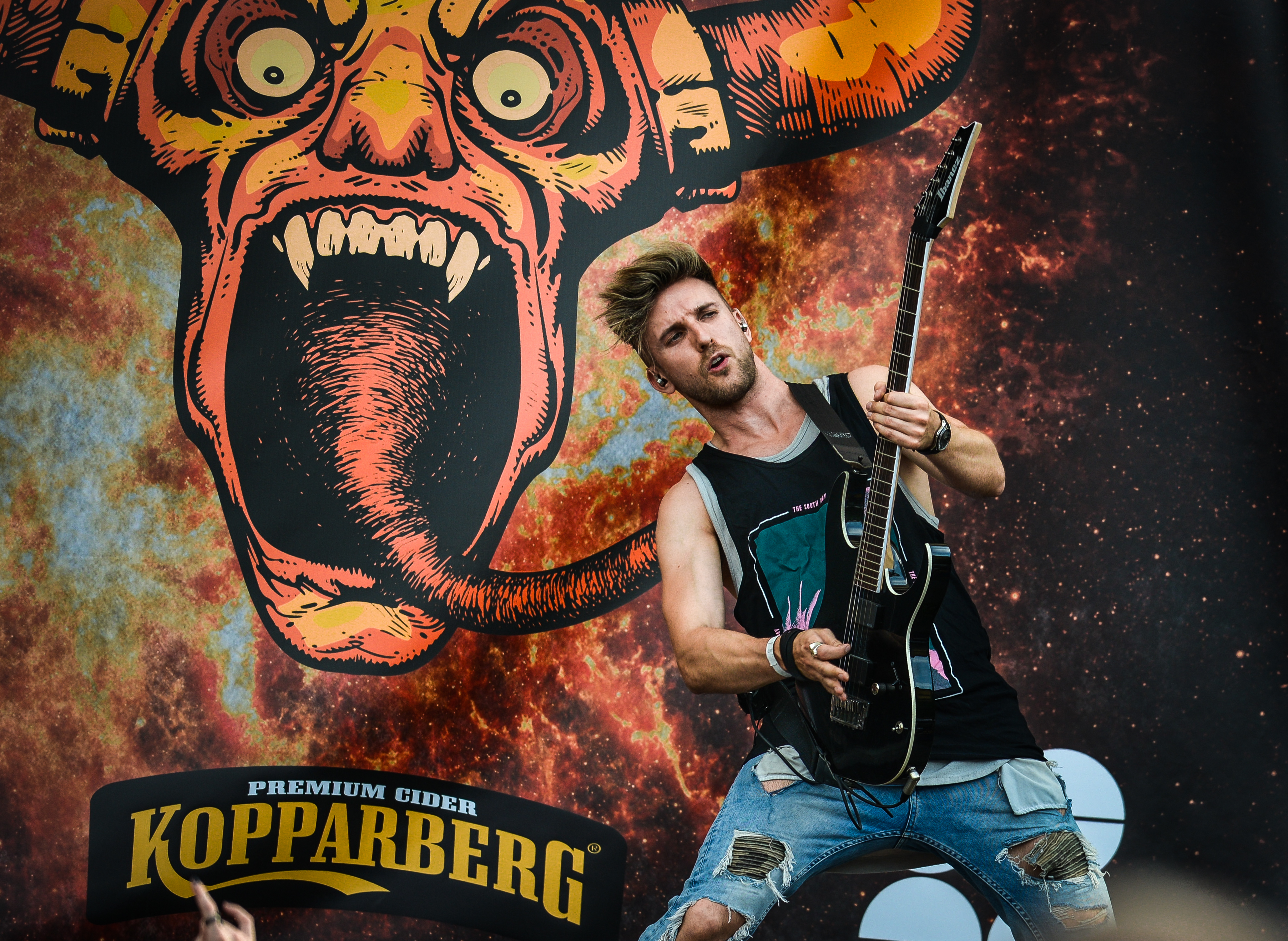 Smash Into Pieces during a gig in Kungsträdgården 2018. Per Bergquist on guitar.